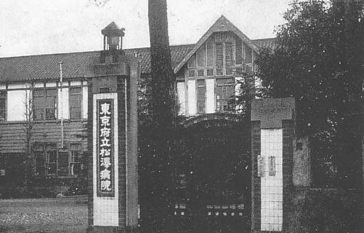 Tokyo Prefectural Matsuzawa Hospital(present-day "Tokyo Metropolitan Matsuzawa Hospital")